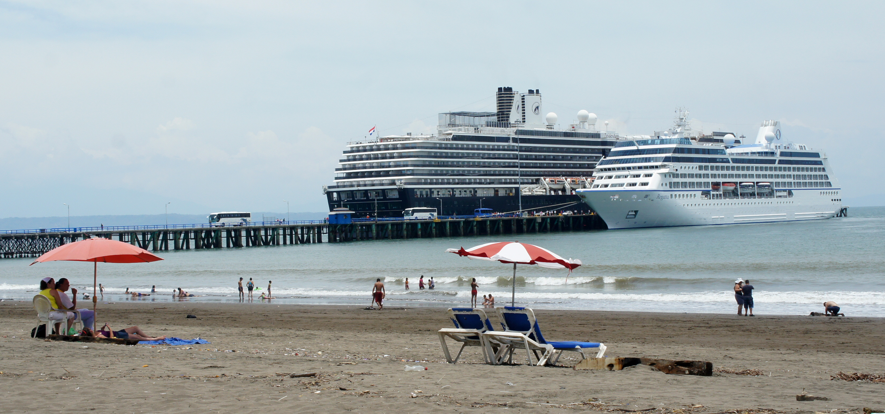 Cruise ships on call at Puntarenas Port, Costa Rica